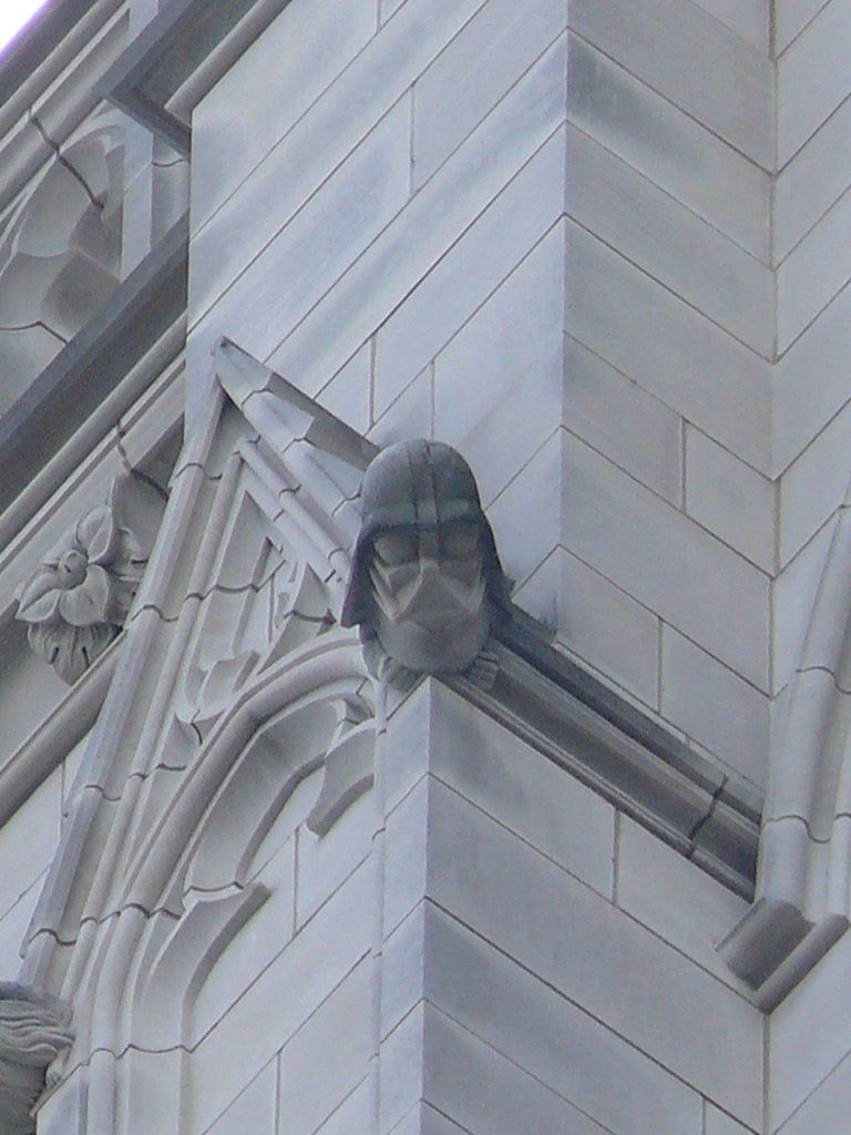 Darth Vader grotesque on the northwest tower of the Washington National Cathedral.